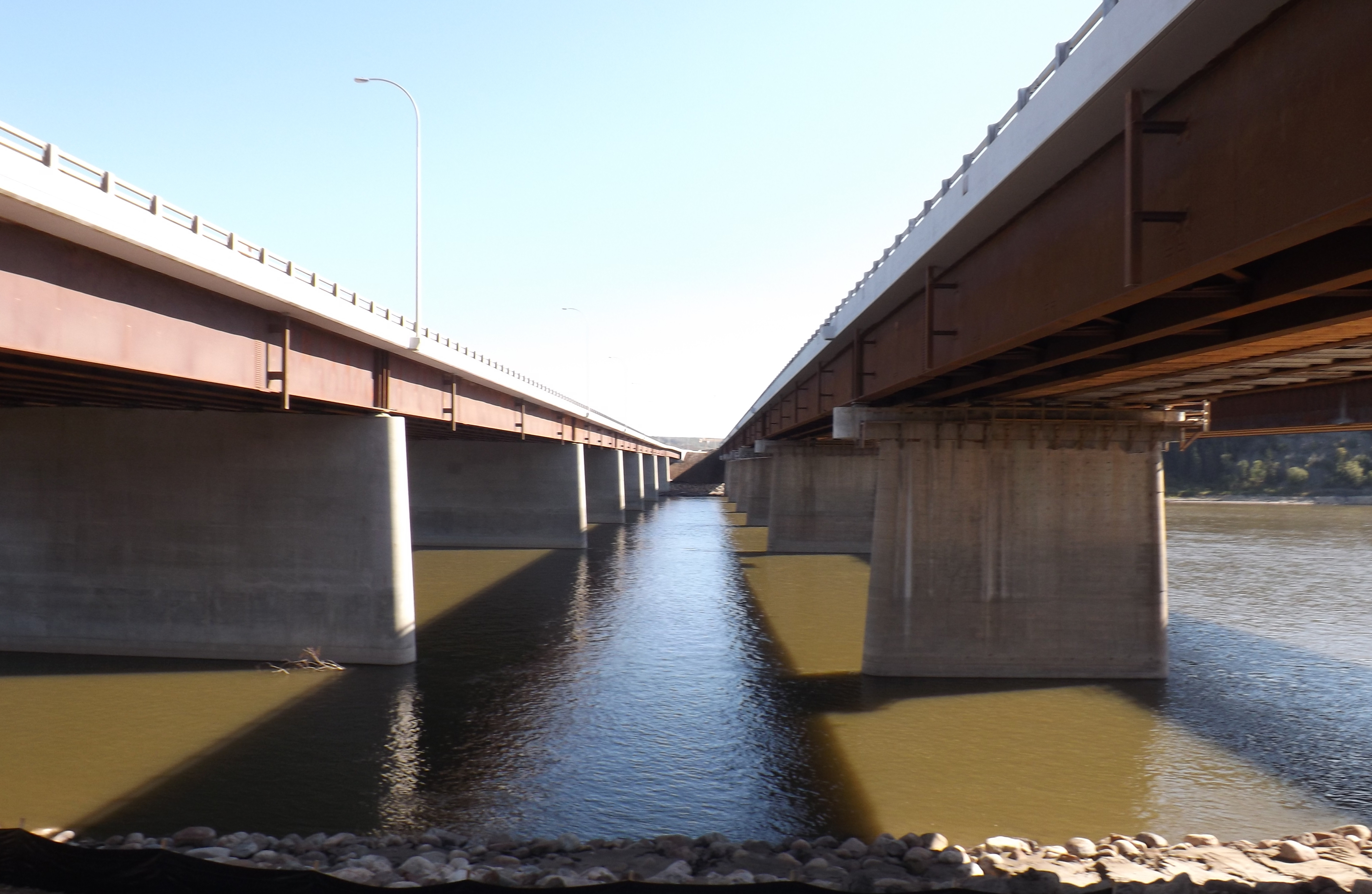 Bridges over the Athabasca River in Fort McMurray, Alberta, Canada.